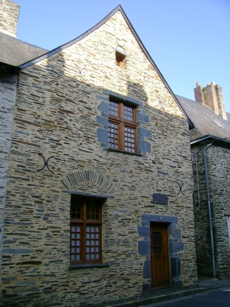 The oldest house in Candé, from 15th century, Maine-et-Loire, France